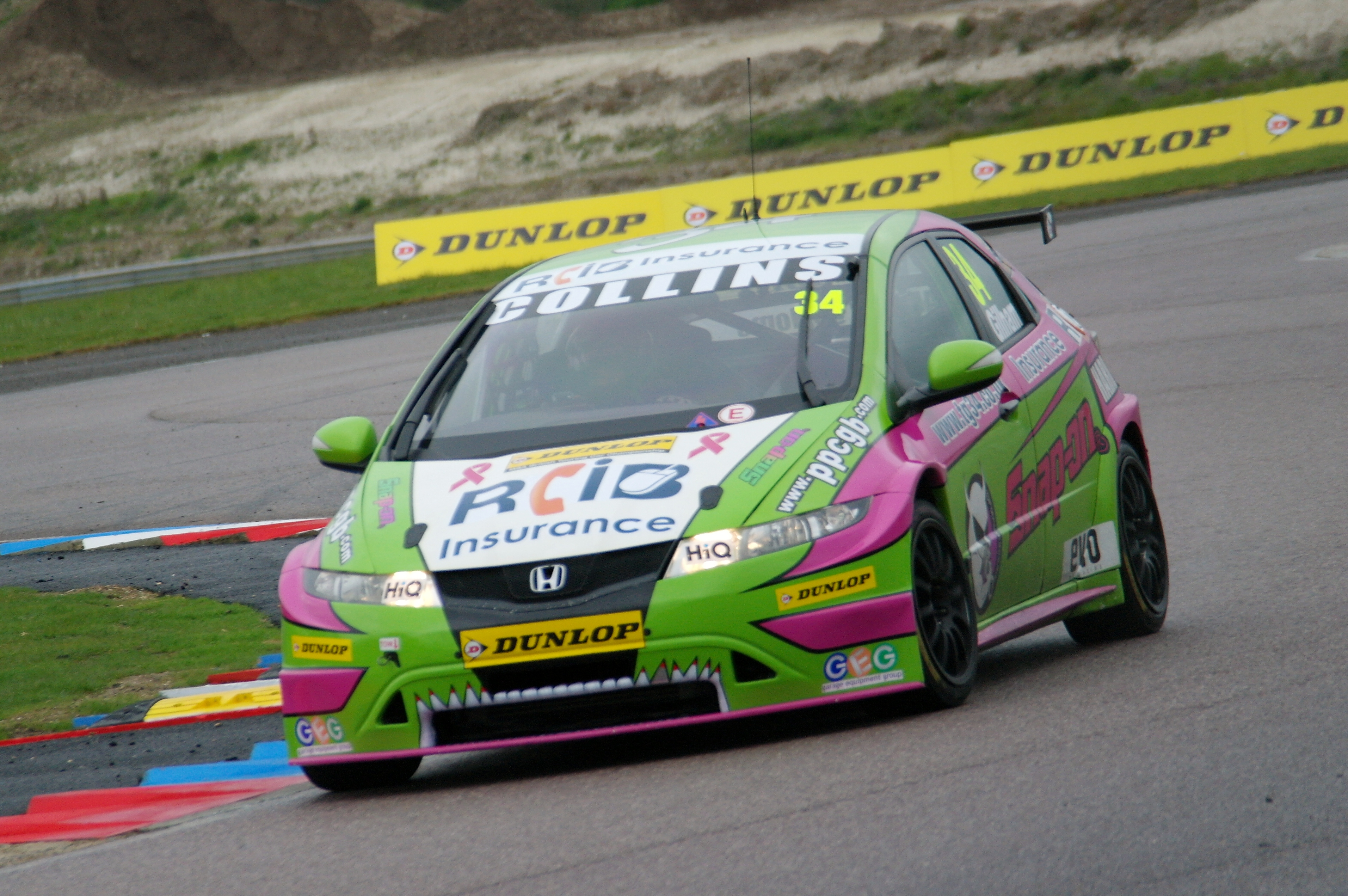 Tony Gilham driving for his own Tony Gilham Racing team during free practice at the Thruxton round of the 2012 British Touring Car Championship season.